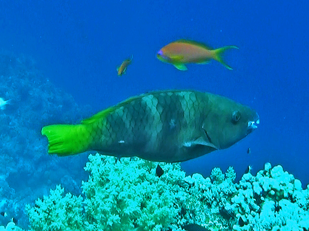 Scarus ferrugineus. Adult of the initial phase. Sharm El-Sheikh